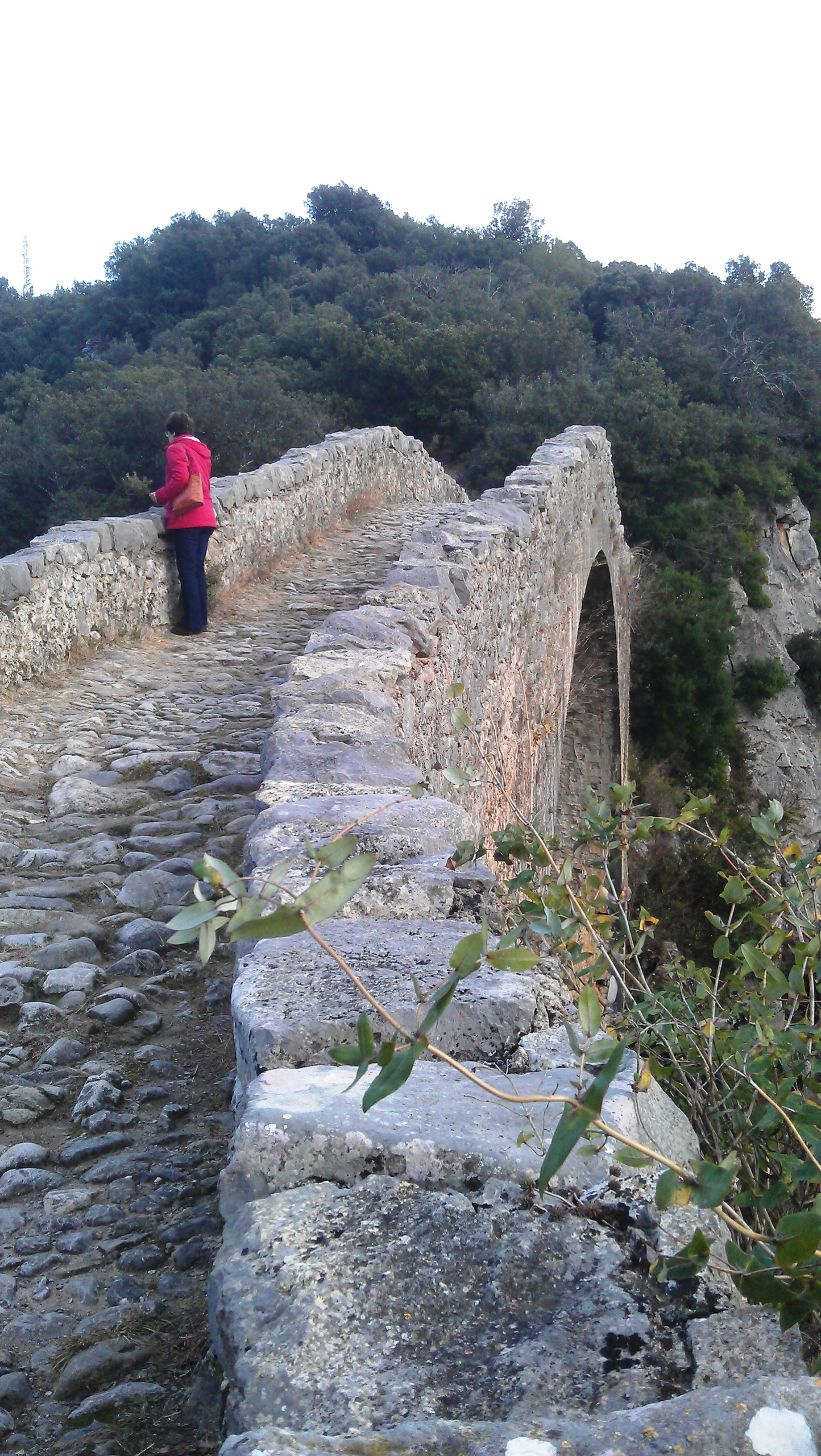 Romanic Bridge at Llierca (near by Montagut, Catalonia, Spain, 14. Century)